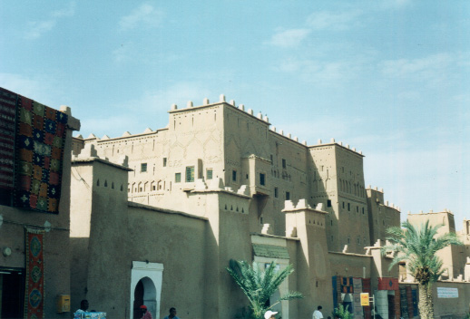 Morocco, Taourirt